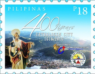 400th Founding Anniversary of Catbalogan City.